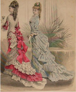 Slimmer silhouettes. Tiered & Draped train.